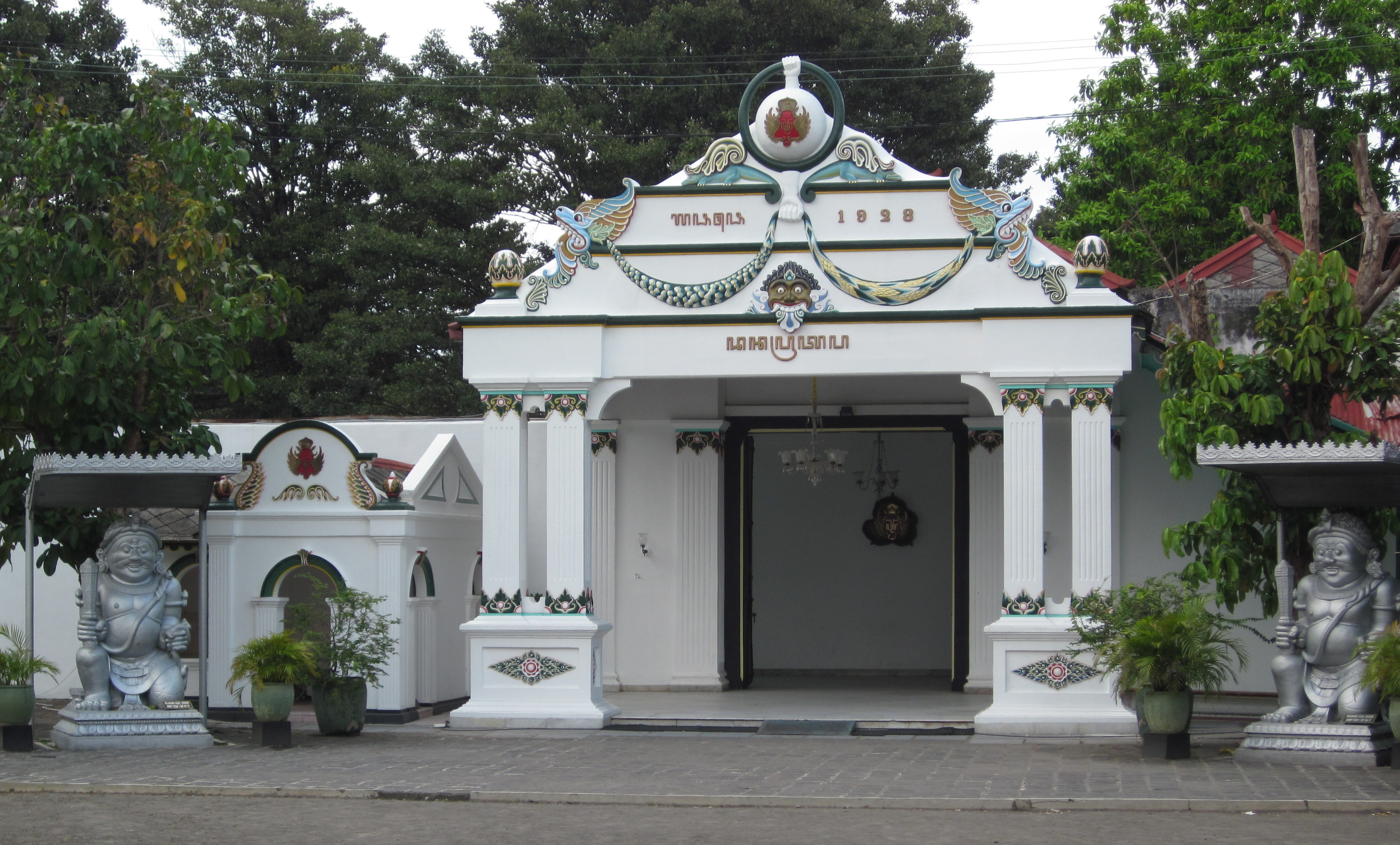 Donopratono gate and the 2 Dwarapala guardian statue.